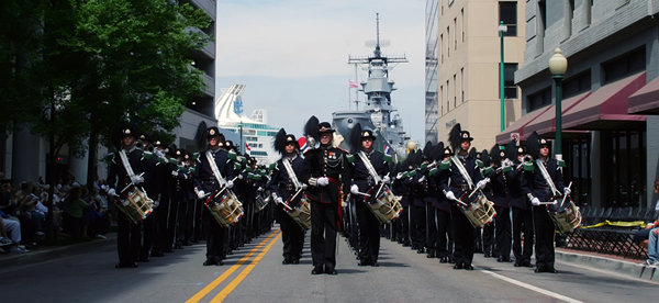 His Majesty the King’s Guard of Norway, third company, in the middle of a parade in Norfolk, Virginia, USA during the Virginia International Tattoo.